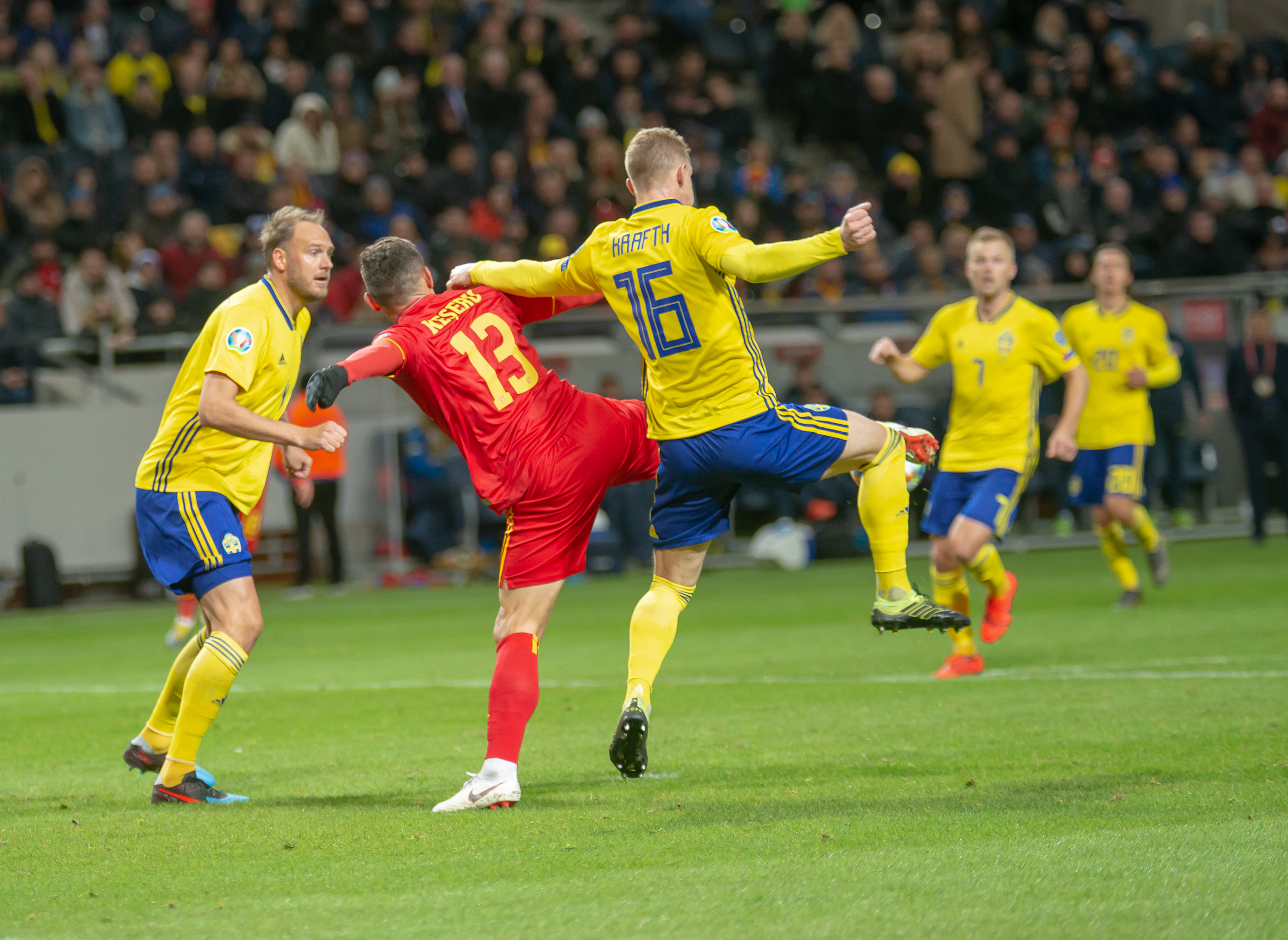 UEFA EURO qualifiers Sweden vs Romaina 20190323